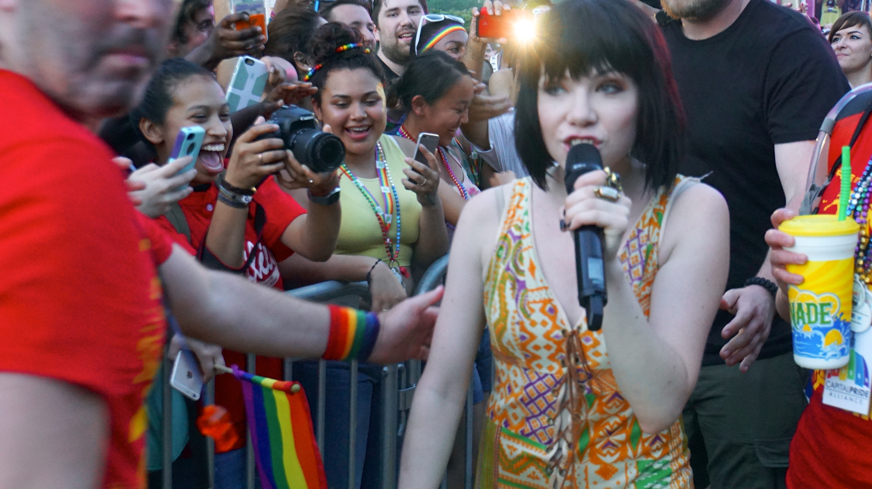 Featuring Carly Rae Jepsen and Wilson Phillips Kaiser Permanente is a Gold Sponsor of Capital Pride and a Platinum Sponsor of Capital TransPride in our nation's capital